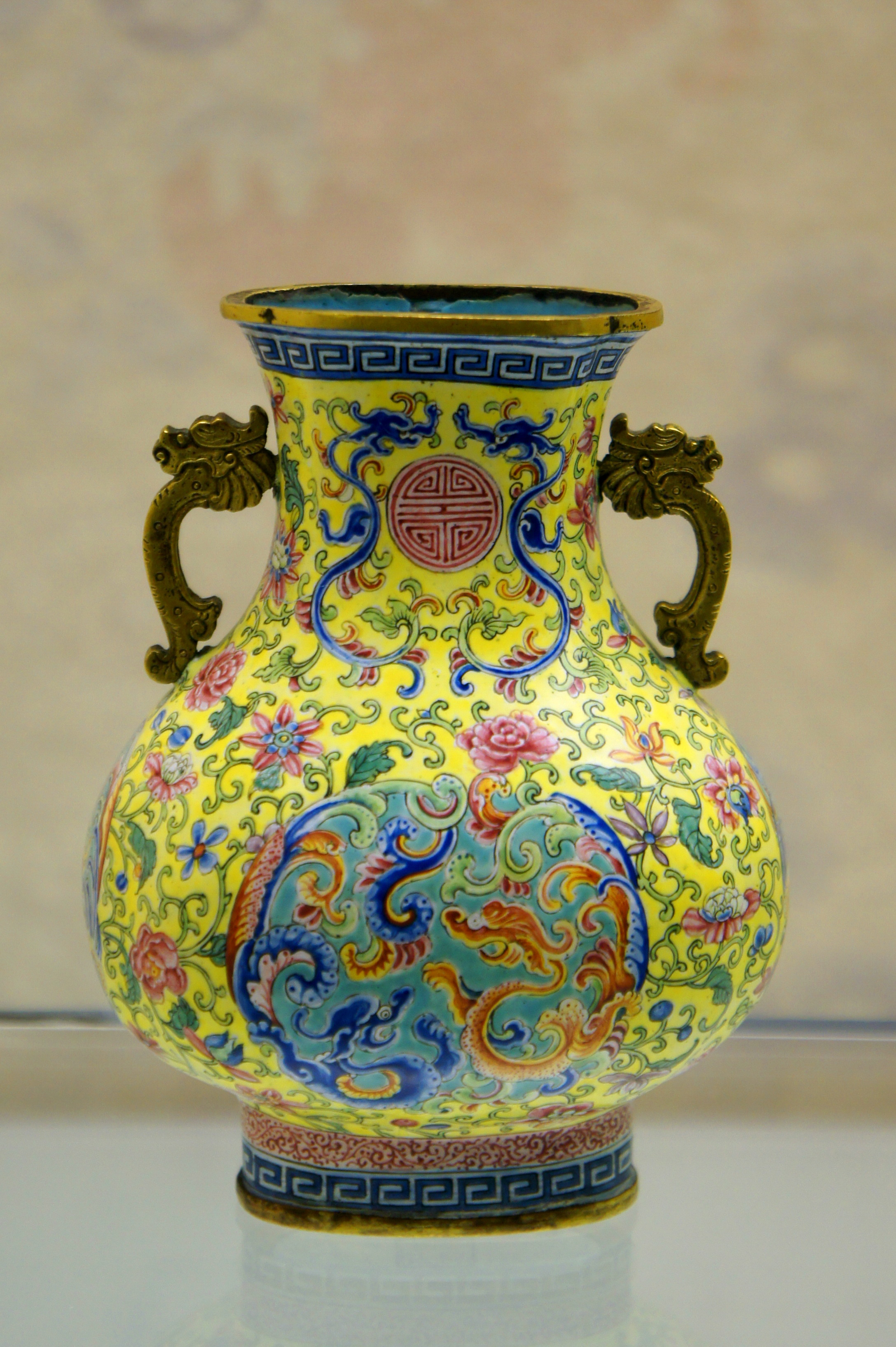 A vase with floral scroll design in Canton enamel (An exhibit of the Hong Kong Museum of Art)